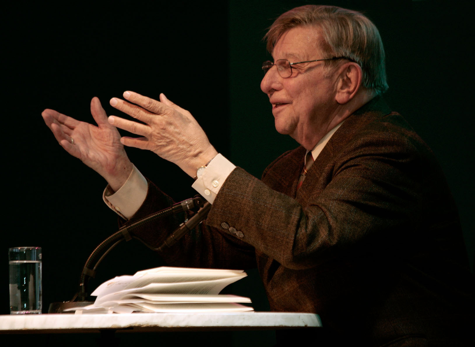 Journalist and author Hugo Portisch reading from 'Die Olive & wir' (literary evening "Rund um die Burg" 2009 near the Burgtheater in Vienna).